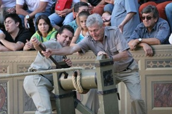 Workmen set up the rope for the Palio start